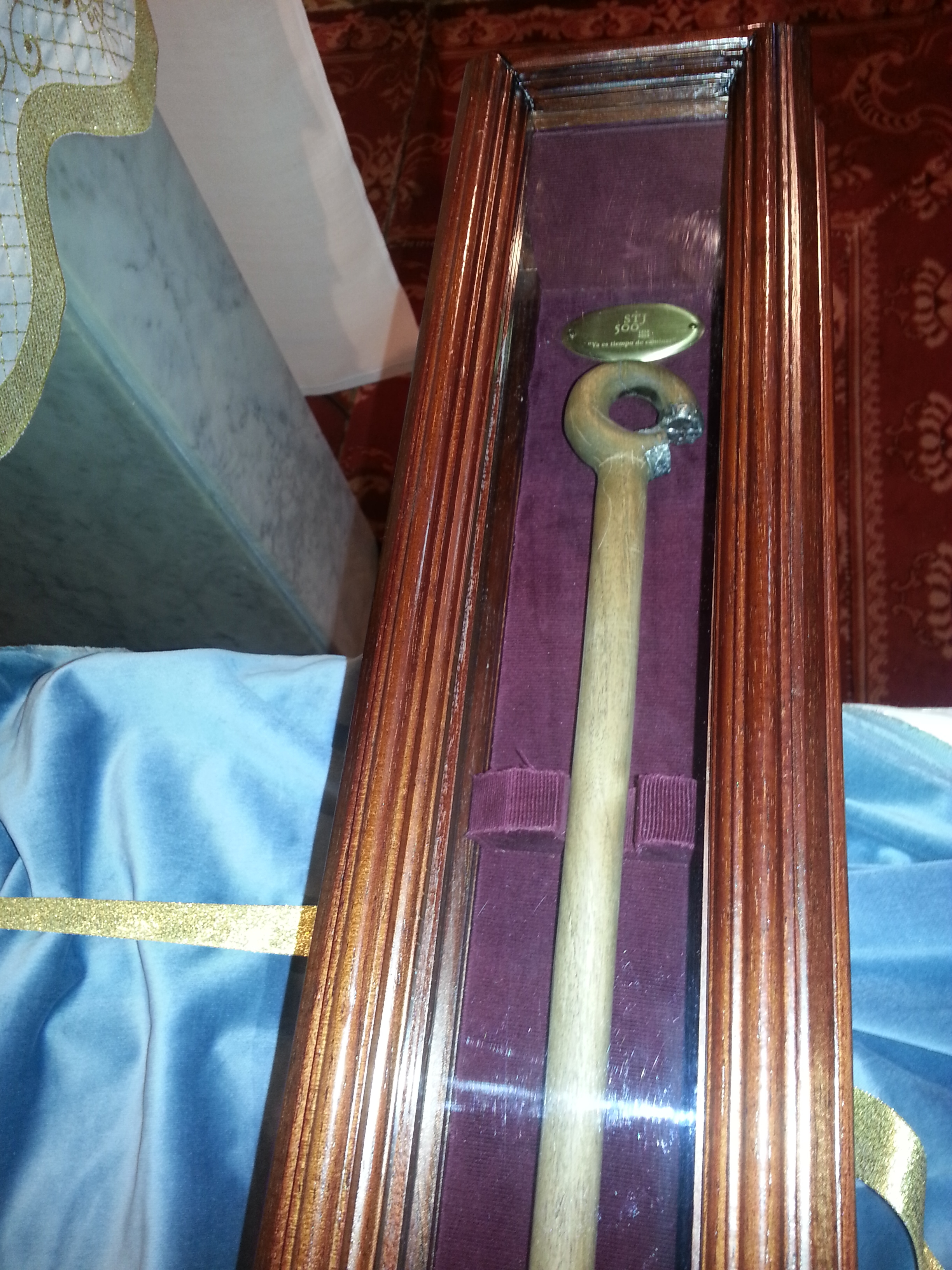 Teresa of Ávila's walking stick (walking cane) in Argentina. This relic has become a symbol of St. Teresa’s own spiritual journey. The walking stick, encased in a crystal box, is part of the 144-day “Path of Light” pilgrimage tour that began in Ávila, Spain, on 15 October, 2014 (her feast day), and has stopped at Discalced Carmelite centers worldwide. The pilgrimage tour was organised by the Discalced Carmelites to celebrate the fifth centenary of the birth of St. Teresa of Jesus, and will end in Ávila on 28 March (her birthday), 2015.